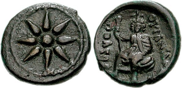 MACEDON, Uranopolis. Circa 300 BC. Æ 17mm (3.53 g). Star of eight rays / Aphrodite Urania seated half-left on globe, holding scepter. AMNG 3; SNG ANS 914; BMC 2. Good VF, green and brown patina.